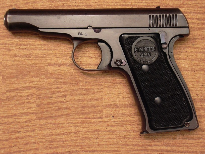 Author: irts uploaded to the English wiki under the same name by Adams10